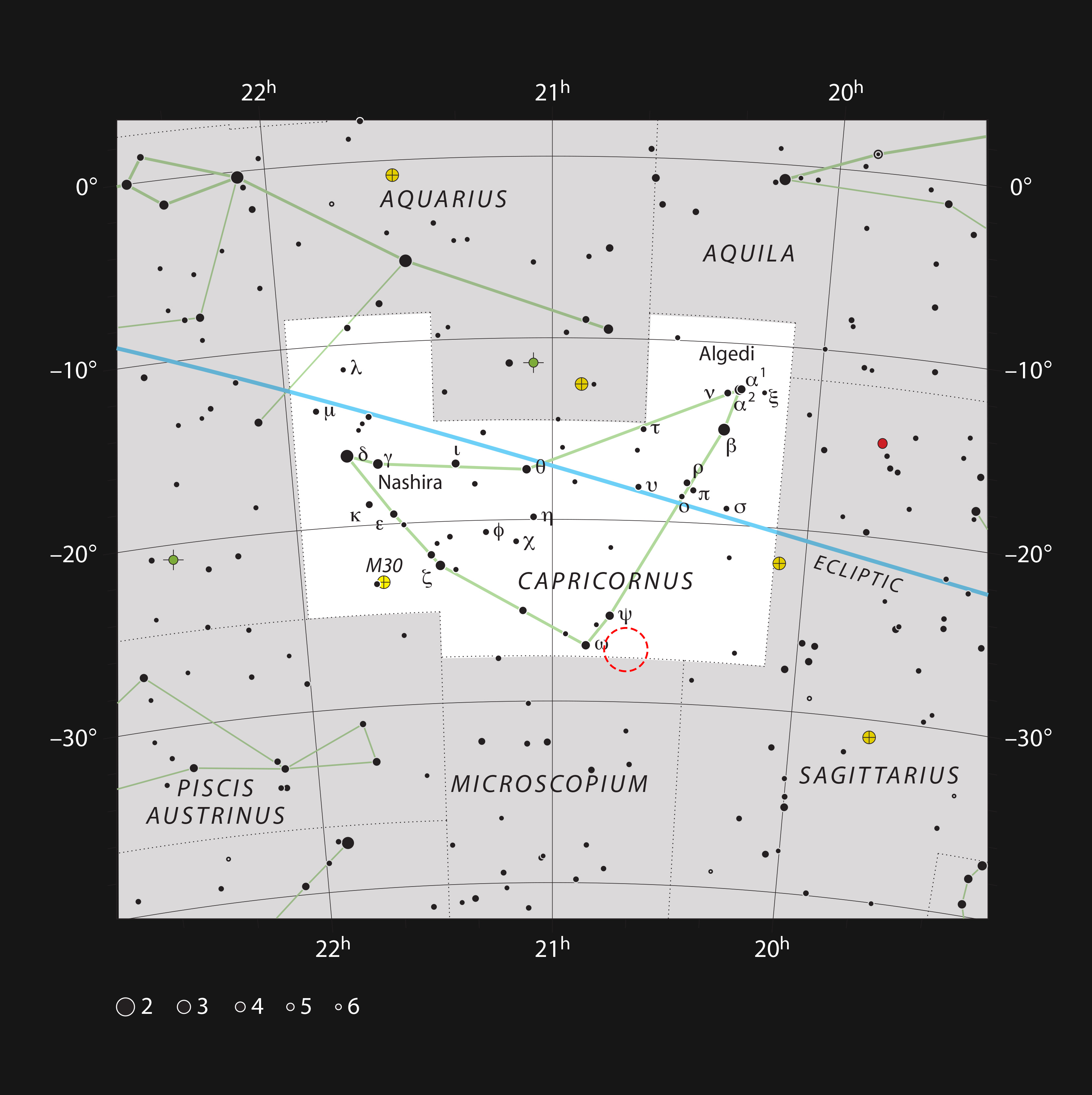 This chart shows the location of the remarkable Solar Twin star HIP 102152 in the constellation of Capricornus (The Sea Goat). Most of the stars visible to the unaided eye on a dark clear night are shown and the position of the star is shown with a red circle. HIP 102152 is the oldest Solar Twin ever found. It is too faint to see with the unaided eye but can easily be picked up with a small telescope.